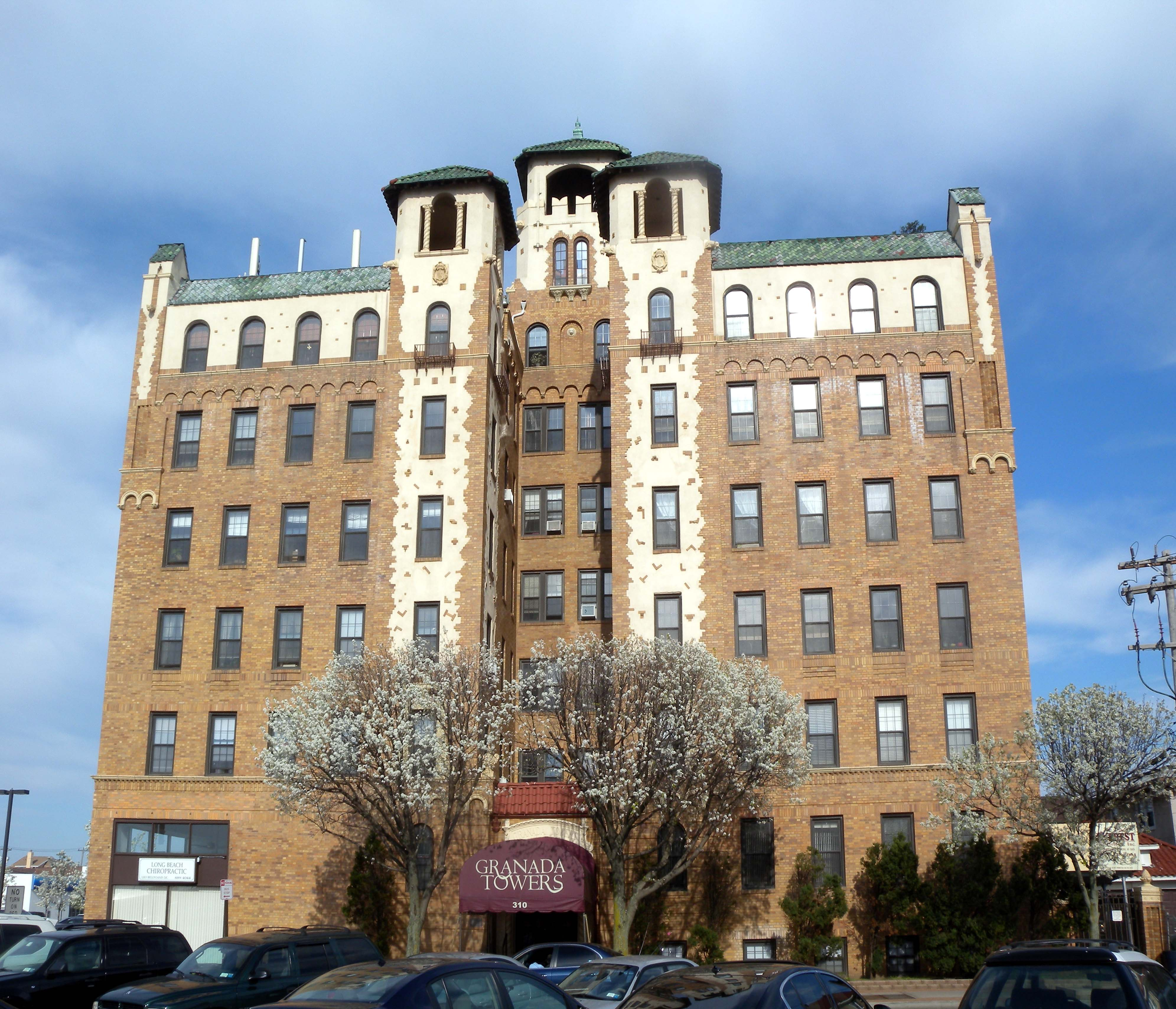 Looking east at Granada Towers on a partly sunny afternoon. EXIF location is a block west due to photographer's error.